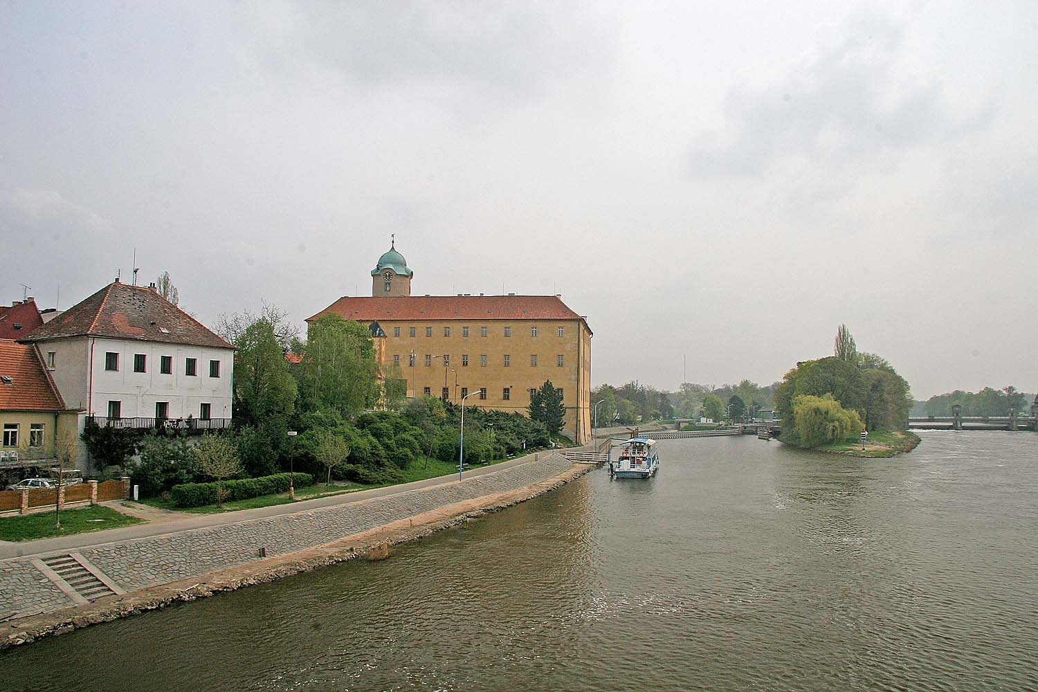 Castle in Poděbrady autor: Prazak date: 28. 4. 2006